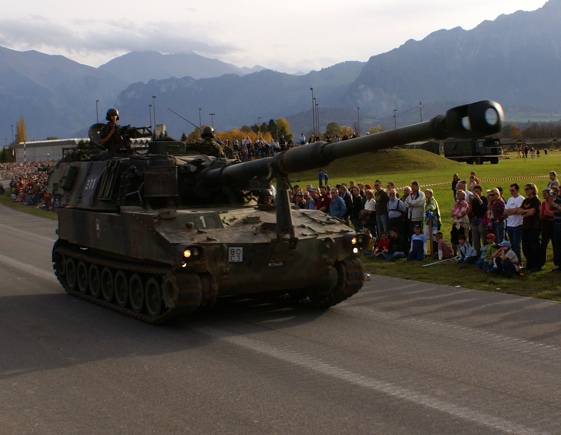 Swiss Army. M109 KAWEST self-propelled 155 mm howitzer. Participating in the "Steel Parade" of the 2006 Army Days, Thun.